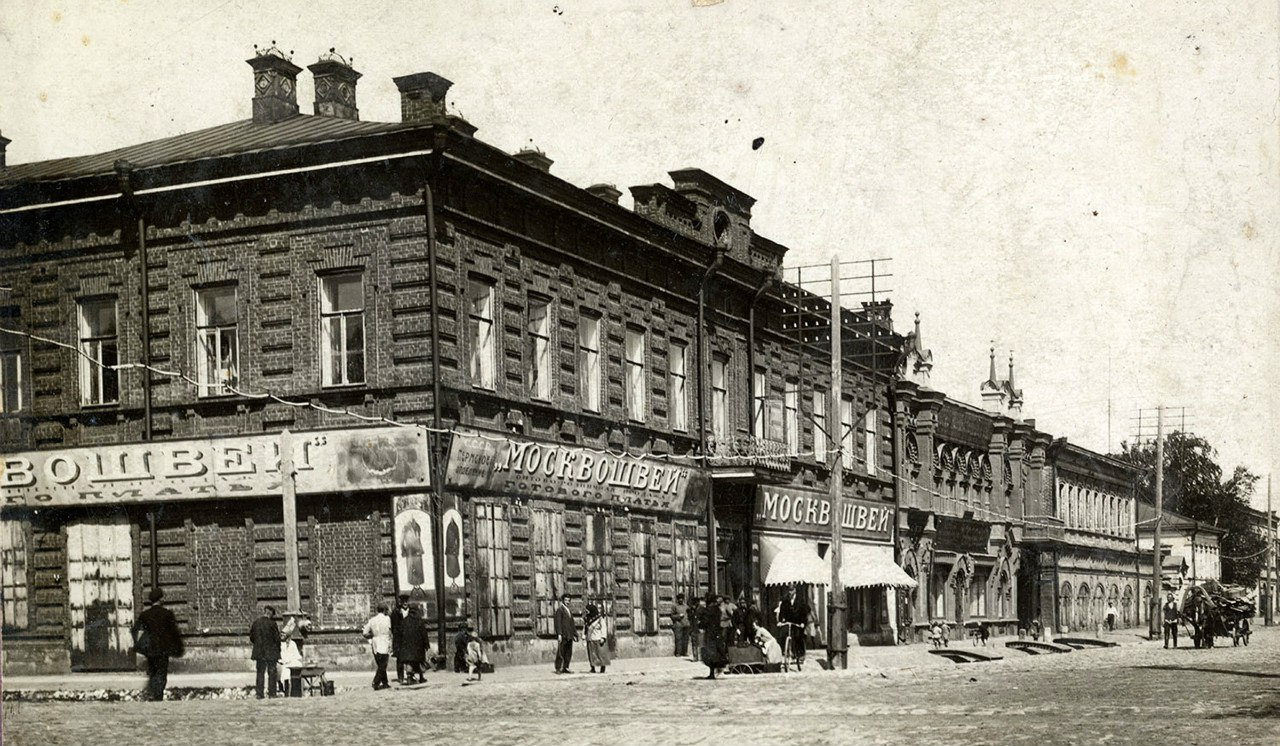 Shop of dressings in Perm, 1926